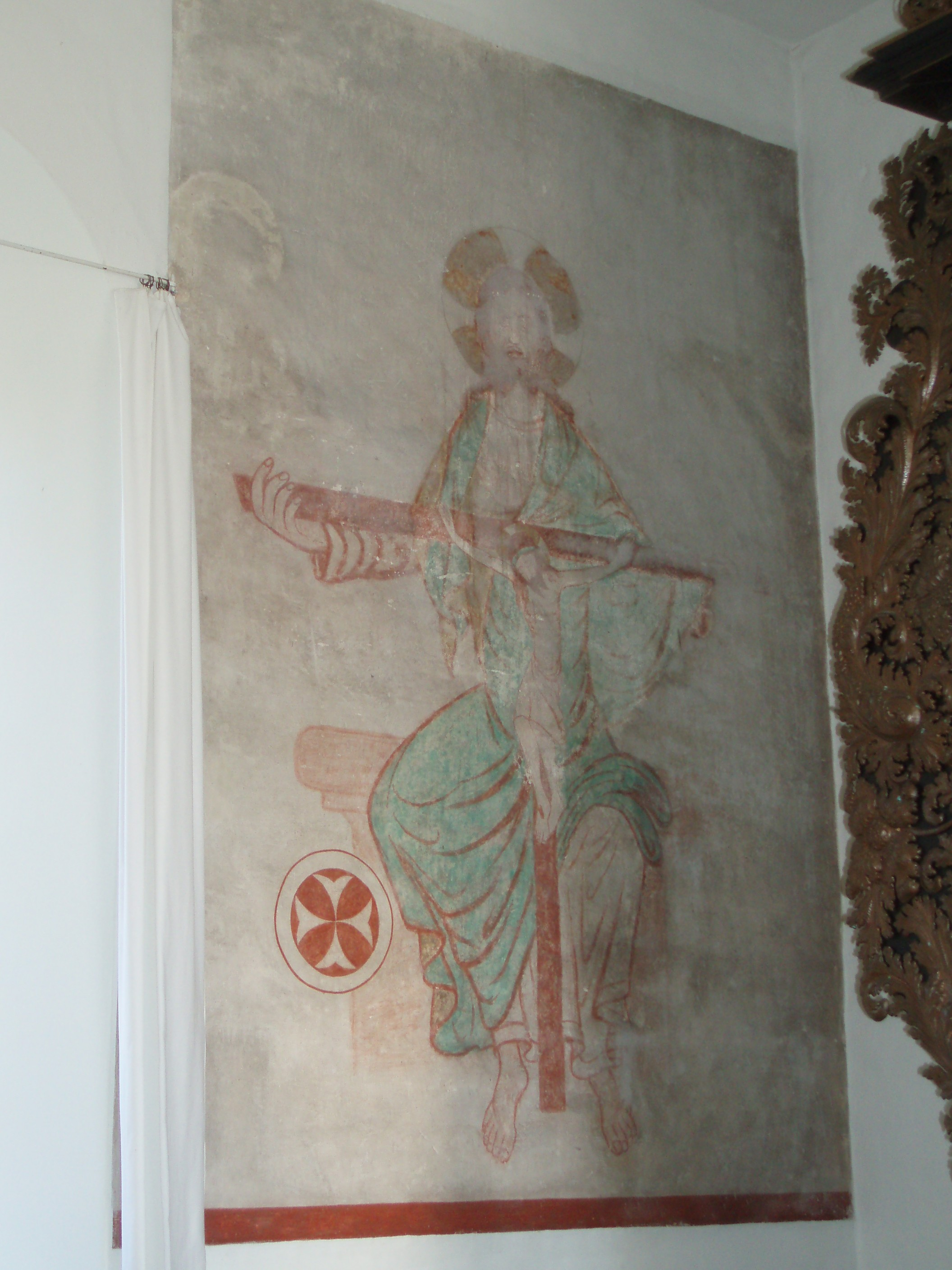 Fresco in Bursø church, Denmark. The subject is Throne of Mercy.